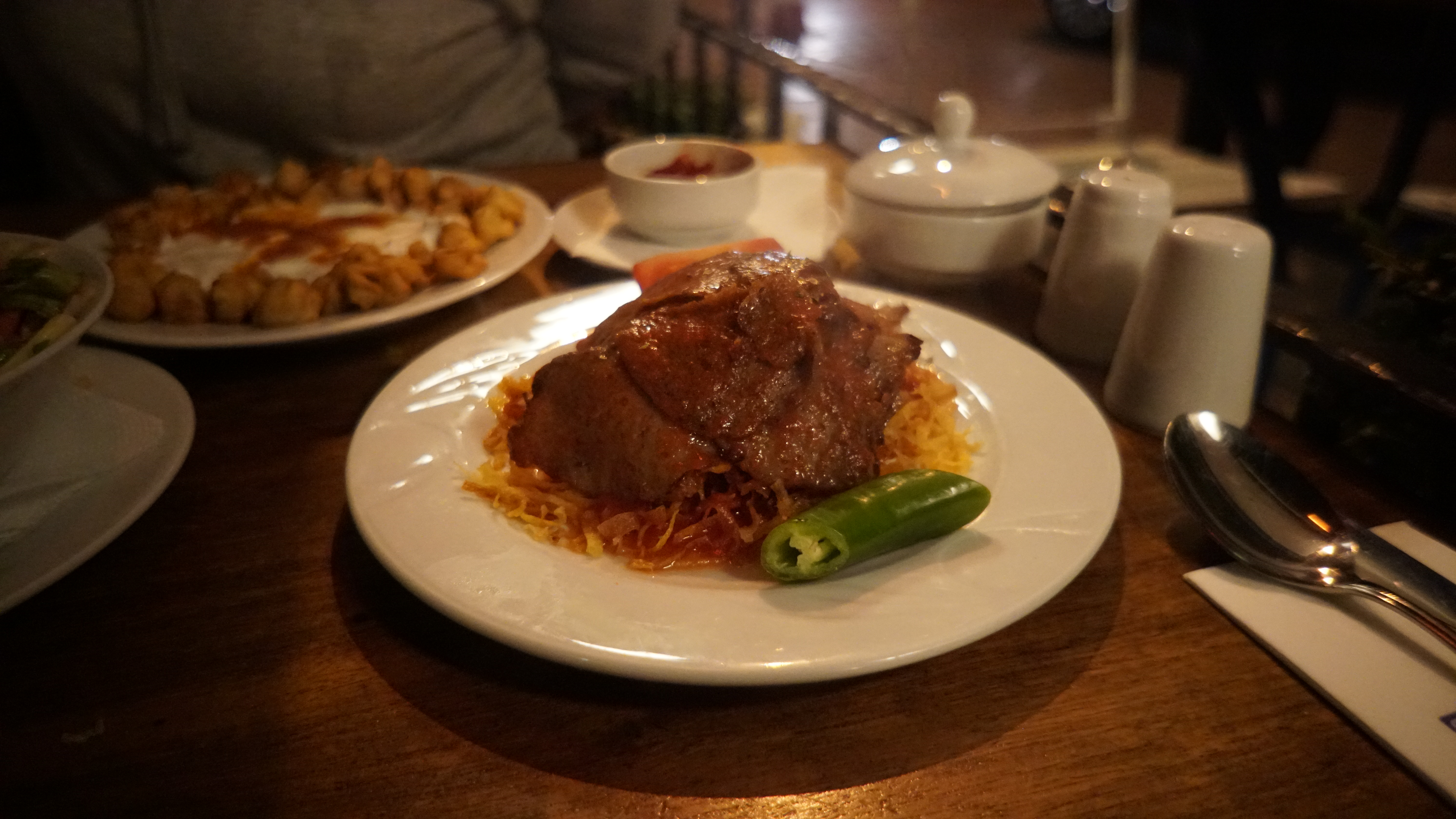 Çökertme kebabı, a meat dish from the Bodrum area of Turkey.